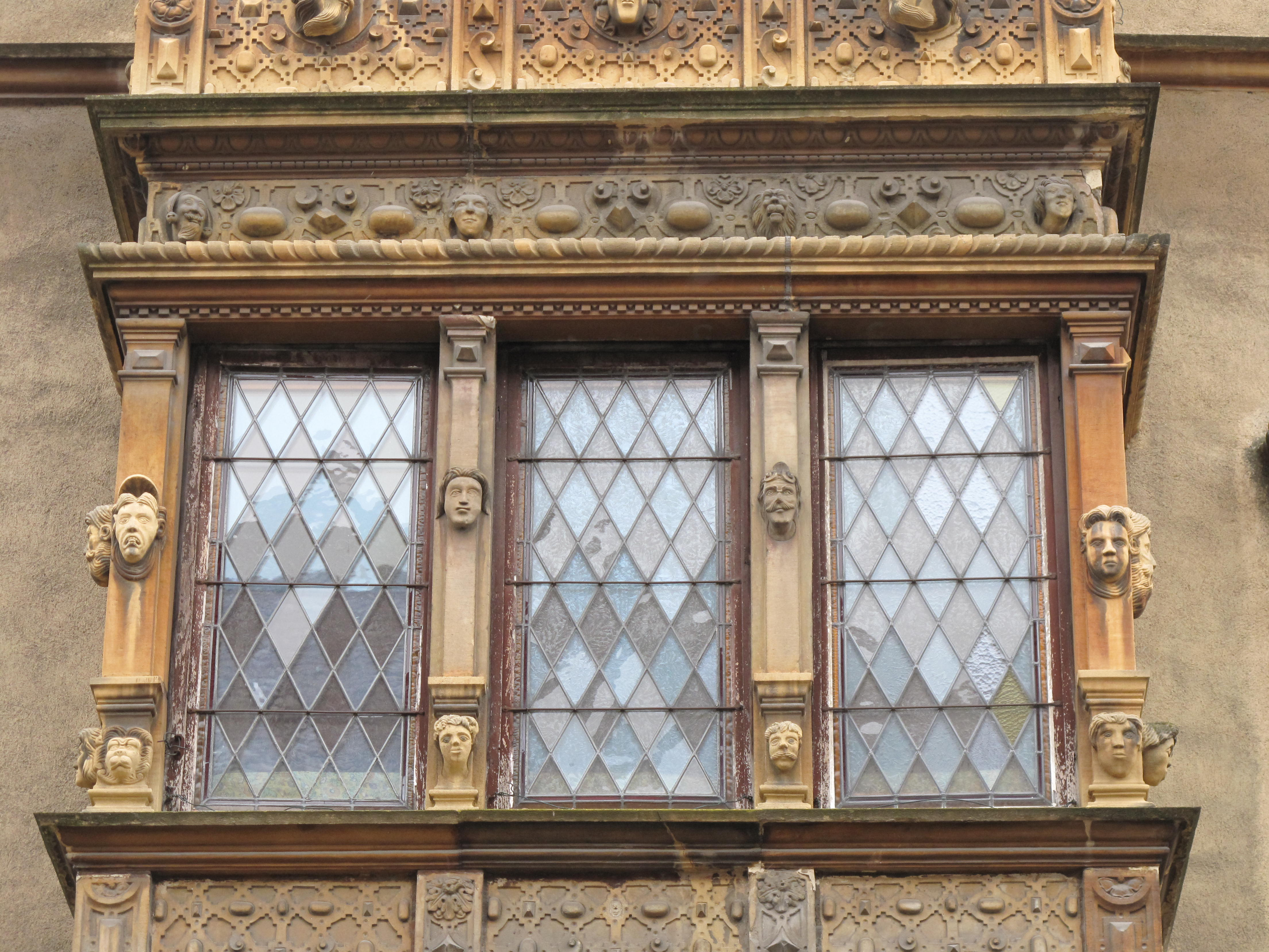 Window of the maison des Têtes (=house with heads) in Colmar, France.